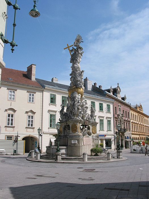 Trinity Pillar in Baden near Vienna